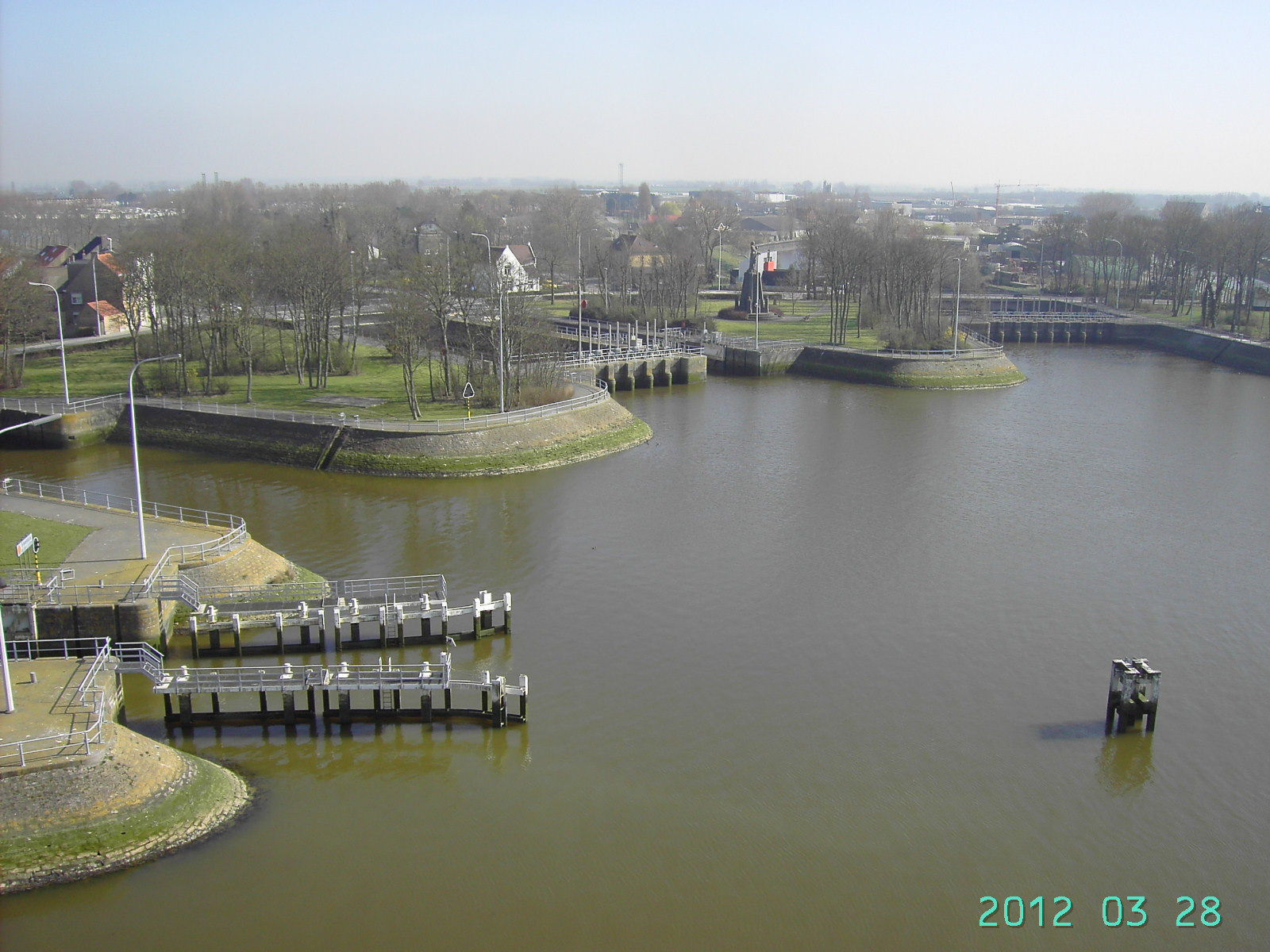 A view of part of the complex of sluices from the top of the Albert i Monument: Gravensas, Scheursas, Iepersas